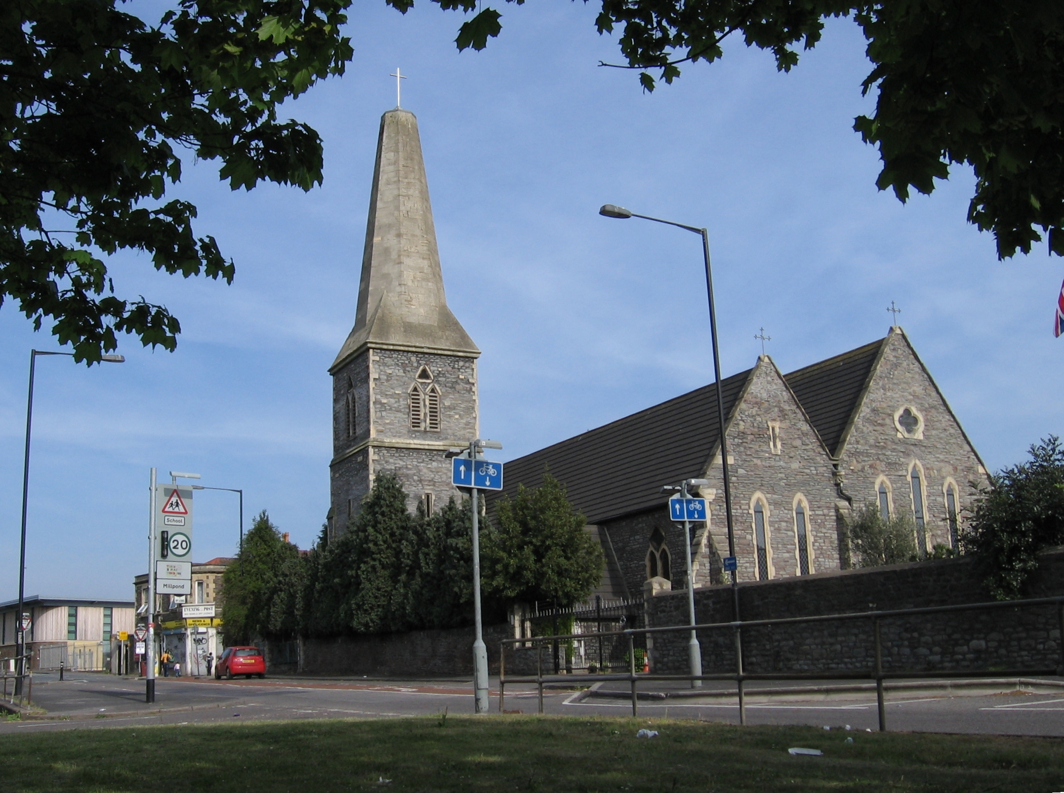 Greek Orthodox church of SS Peter and Paul, Lower Ashley Road, Bristol, England, seen from the west. It was built in 1841 as the Church of England parish church of St Simon.